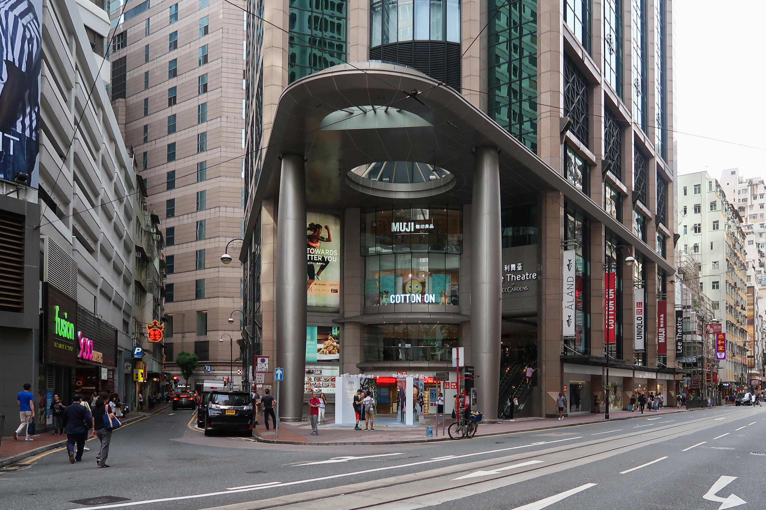 Lee Theatre Plaza